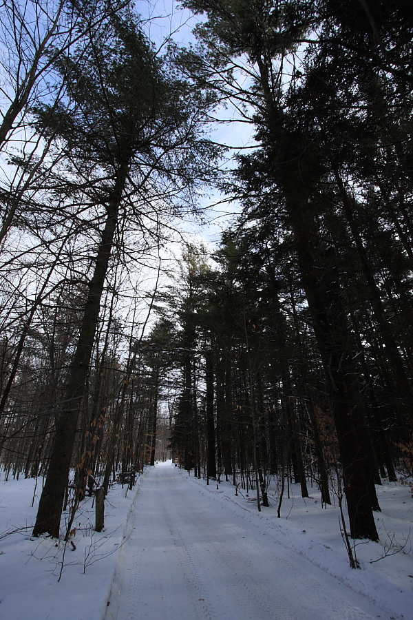 ATV trail in Saint-Lazare, Quebec, Canada.